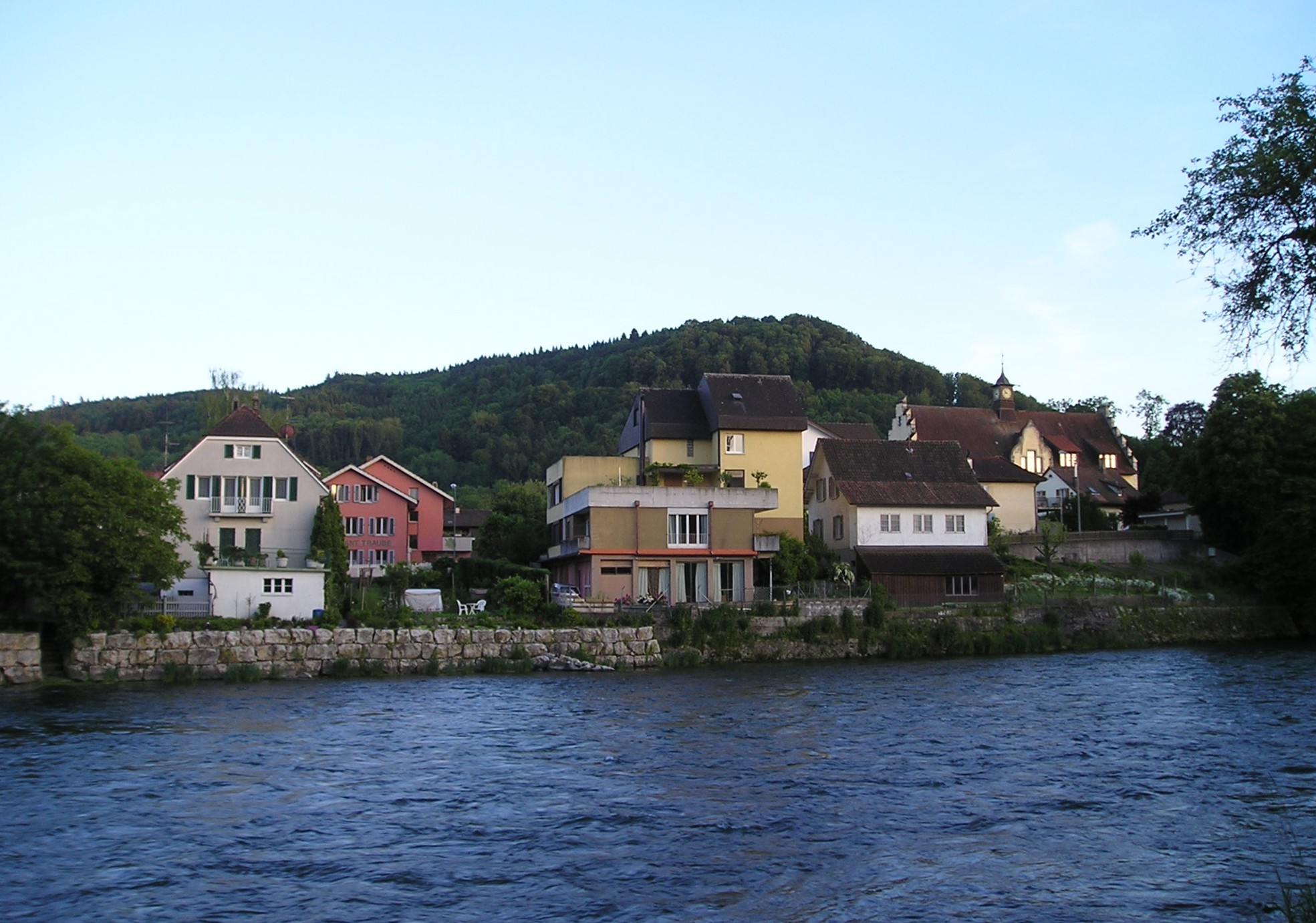 Turgi at the Limmat